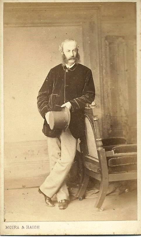 Photograph of Gilbert Blount (1819-76), Catholic English Architect